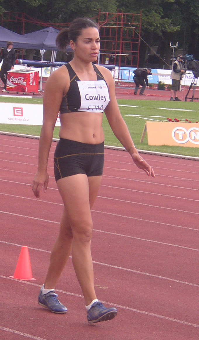 Athlete Sarah Cowley of New Zealand prepares for her attempt in long jump during women's heptathlon at 4th edition of the TNT - Fortuna Meeting (IAAF World Combined Events Challenge Meeting, Sletiště Stadium, Kladno, Czech Republic, 16 June 2010, 11:38).